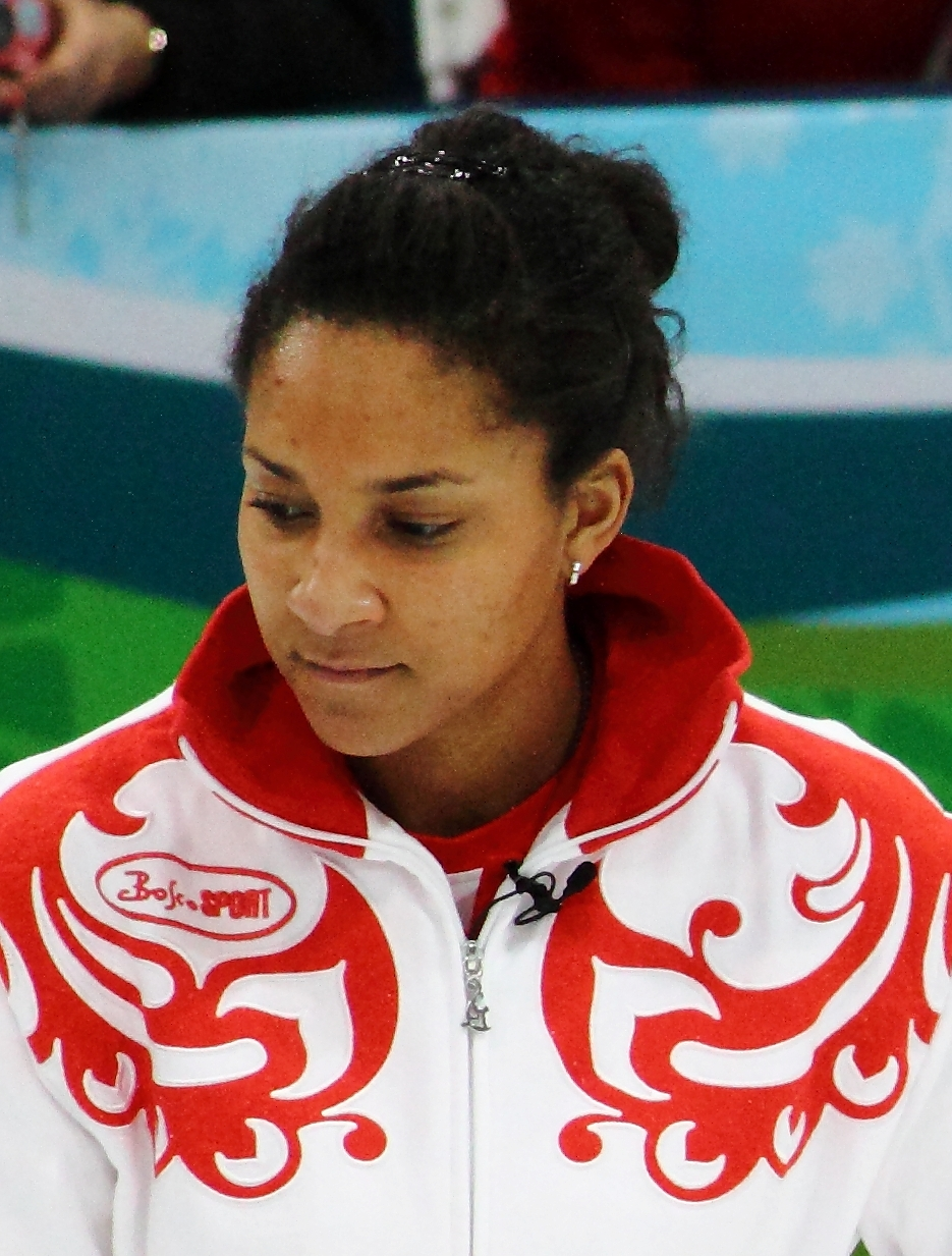 Nkeirouka Ezekh